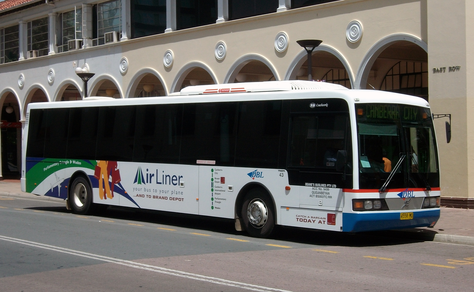 Deane's Buslines Airliner P&D bodied Volvo B7RLE at Civic Bus Interchange in Canberra.